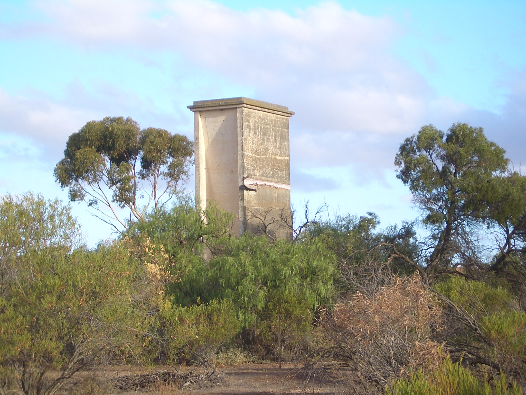 An abandoned building on the grounds of Wallaroo Mines (Kadina, SA).